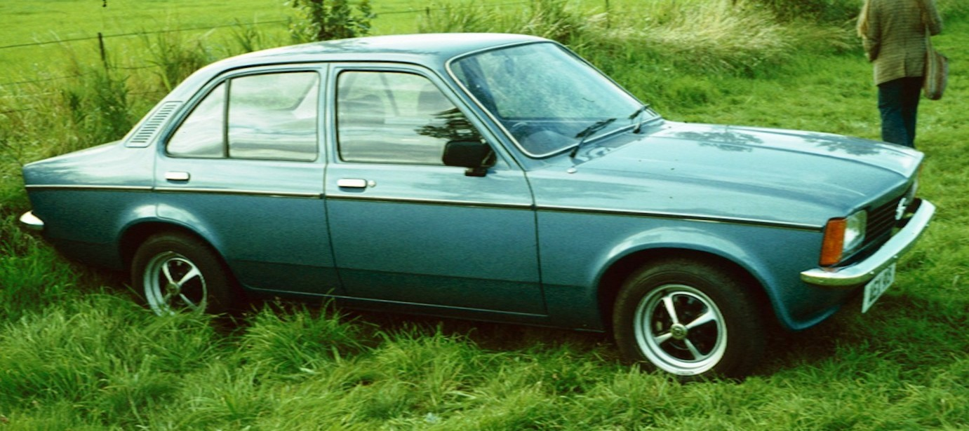 Opel Kadett C post face lift in a lot of grass near Holkham in England